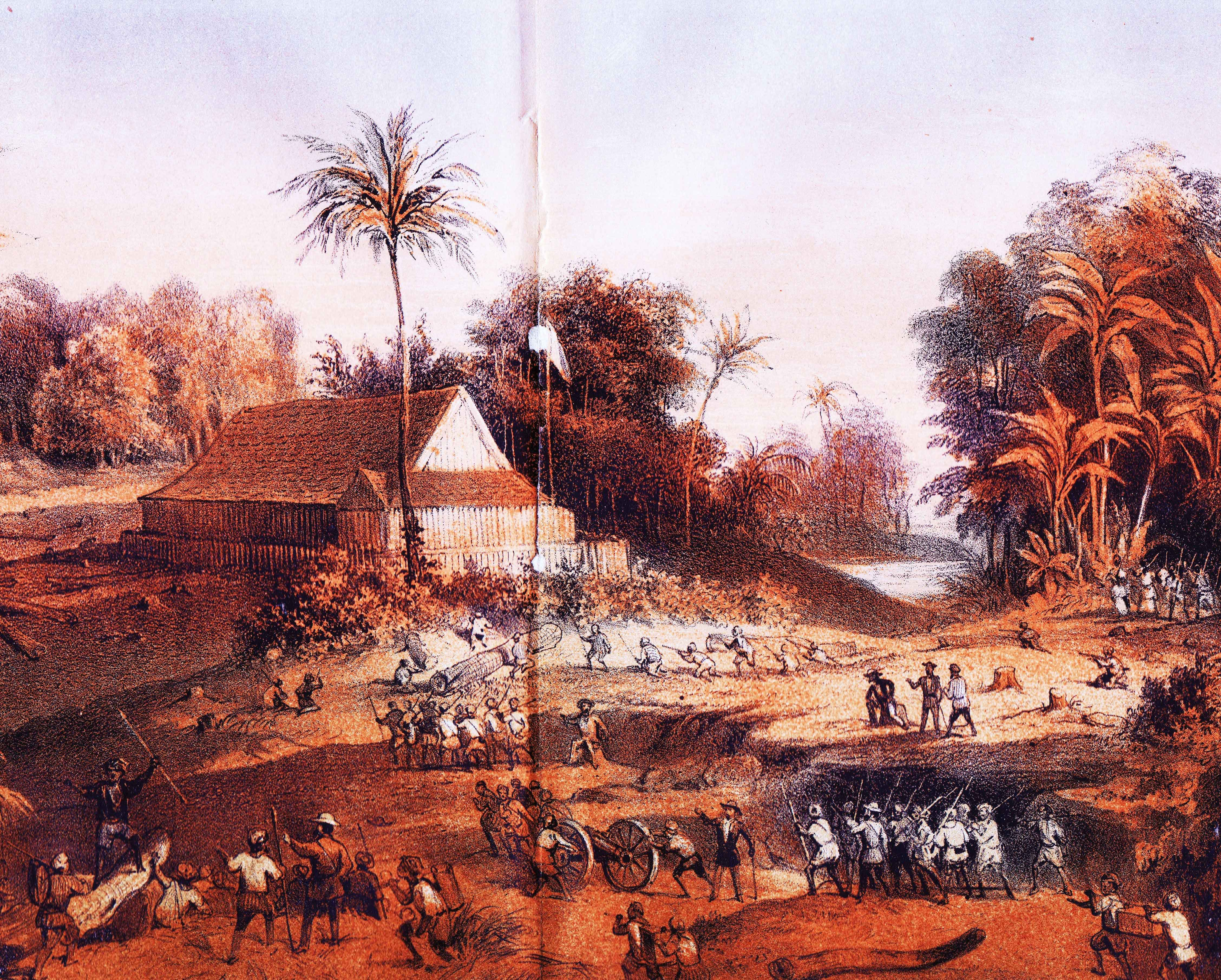 Goenoeng Tongka